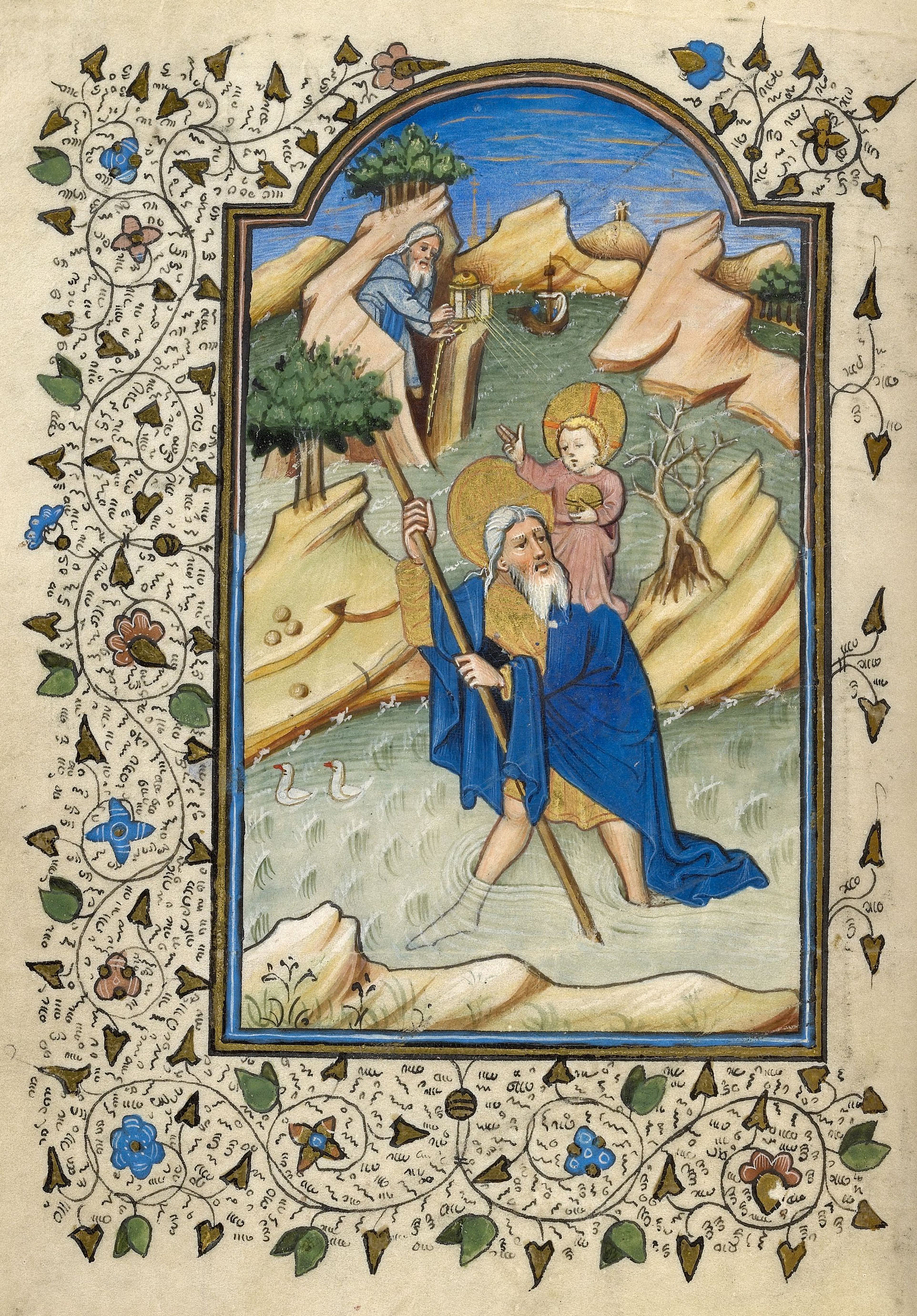 Saint Christopher